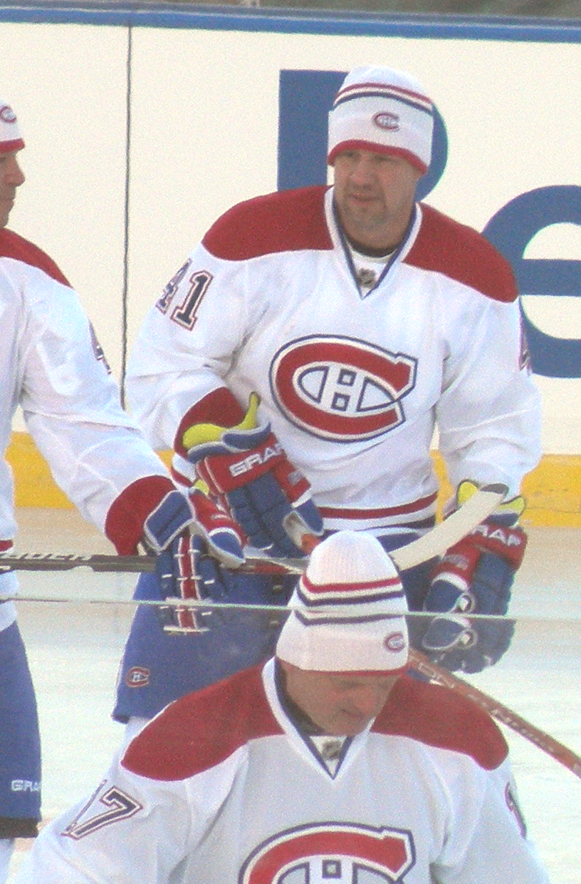 Former Montreal Canadien Brent Gilchrist during the alumni game at the 2011 Heritage Classic in Calgary.